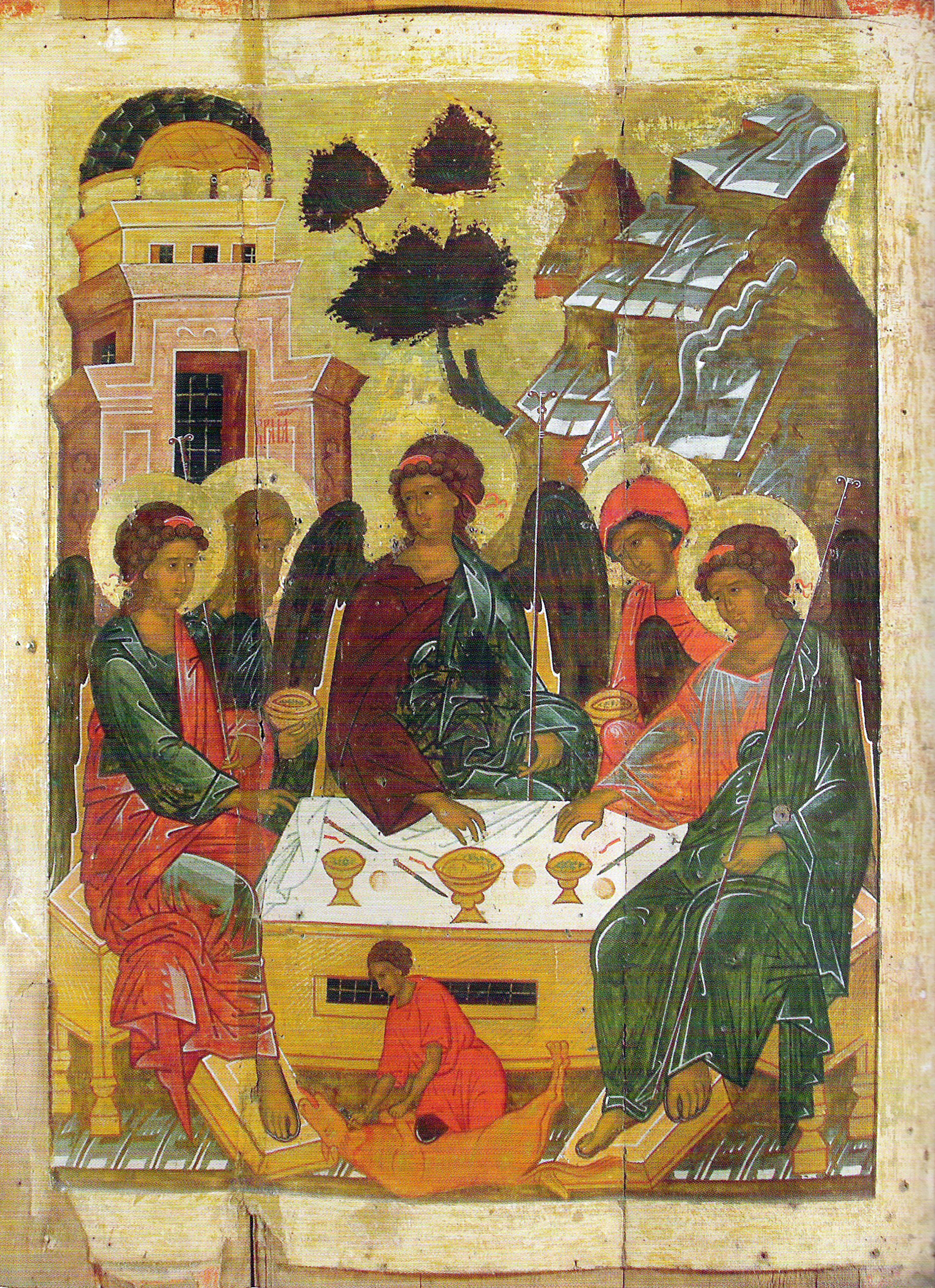 Icon of the Holy Trinity from the Holy Trinity Church on Kaysarovo ruchye in Vologda (demolished in the 1940s).